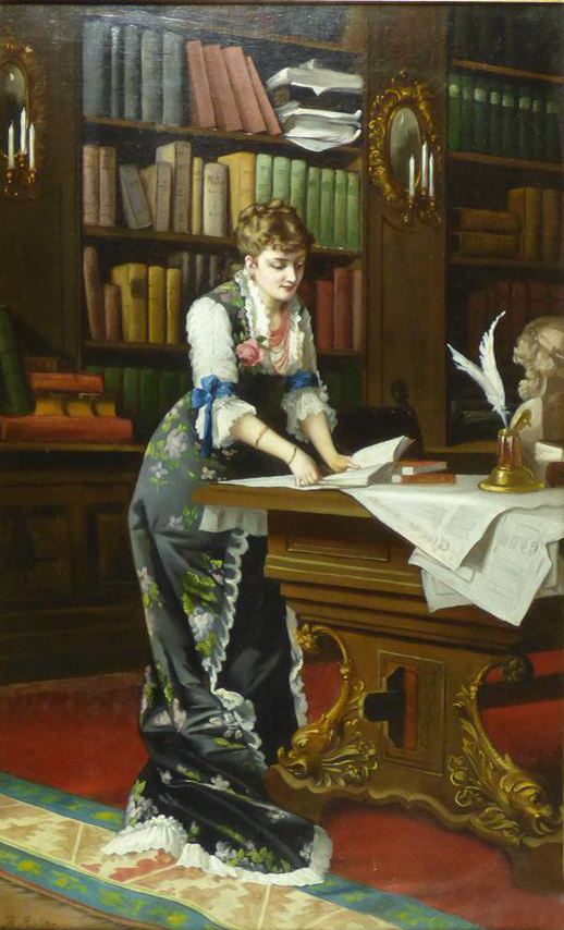 Young Woman in Library